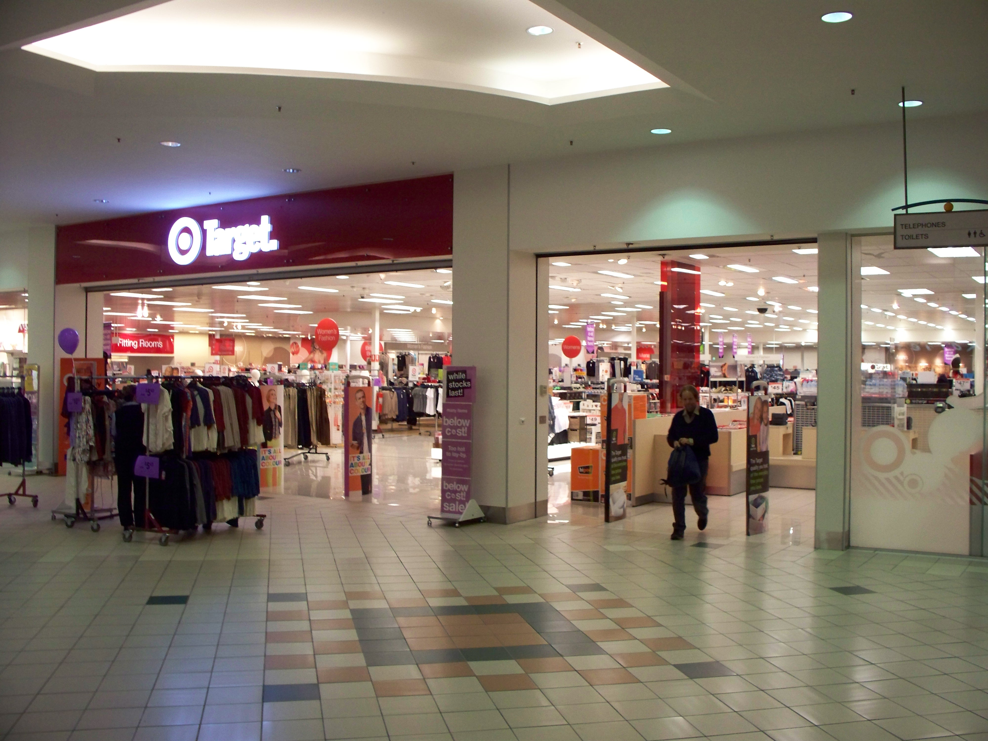 A new look Target outlet within the Northgate Shopping Centre, Glenorchy, a northern suburb of Hobart. This picture was taken using a 12MP Kodak EasyShare Z1275 camera.